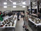 The model display area at the 2008 Armor Modeling and Preservation Society International convention